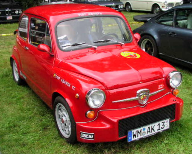 Fiat-Abarth 850 TC (Basis: Fiat 600)